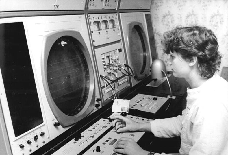 Soviet built weather radar screeen in Neuhaus am Rennweg in the former GDR (1988)